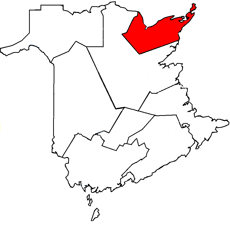 Based on maps by User:Earl Andrew/maps, for Acadie--Bathurst.